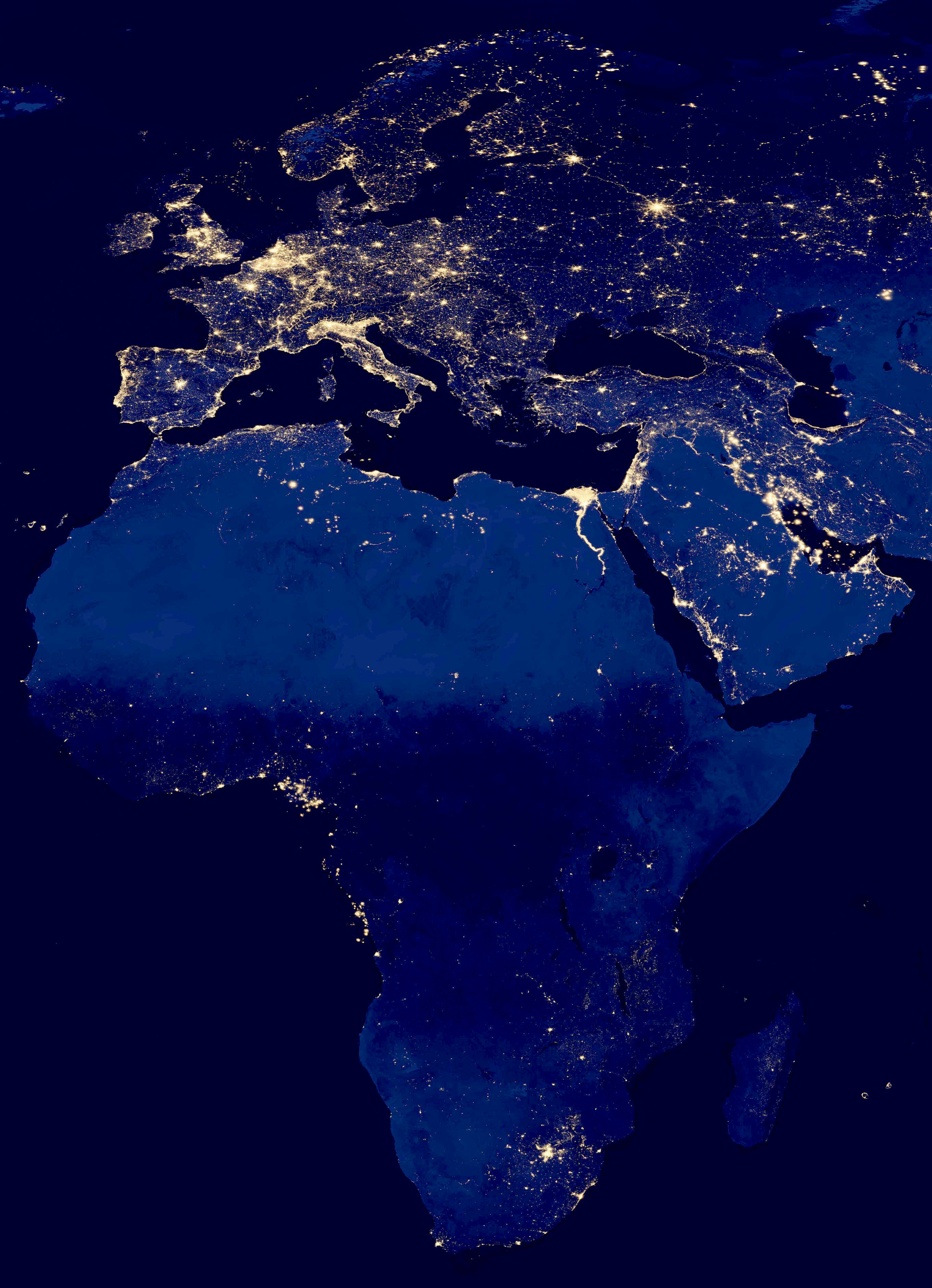 Composite view of Earth at night from the Suomi NPP satellite in polar orbit 512 miles above the surface, from April 18, over nine days and for 13 days ending October 23, 2012.